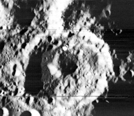 Sierpinski, on the far side of the moon.